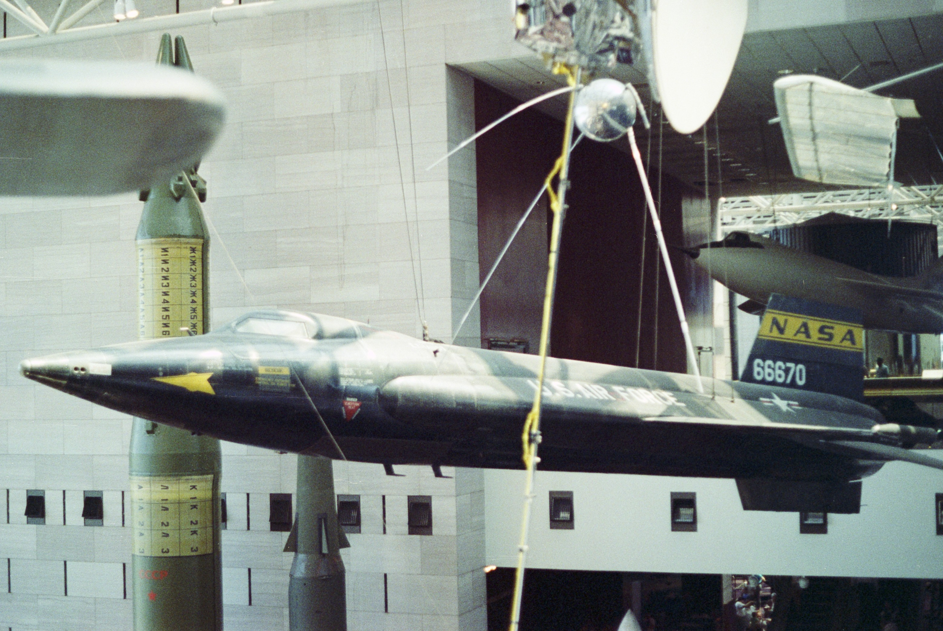 North American X-15A 56-6670 (cn 240-1) US Air Force. (After its initial test flights in 1959, the X-15 became the first winged aircraft to attain hypersonic velocities of Mach 4, 5, and 6 (four to six times the speed of sound) and to operate at altitudes well above 30,500 meters (100,000 feet). National Air and Space Museum - Washington DC - USA, August 1990.